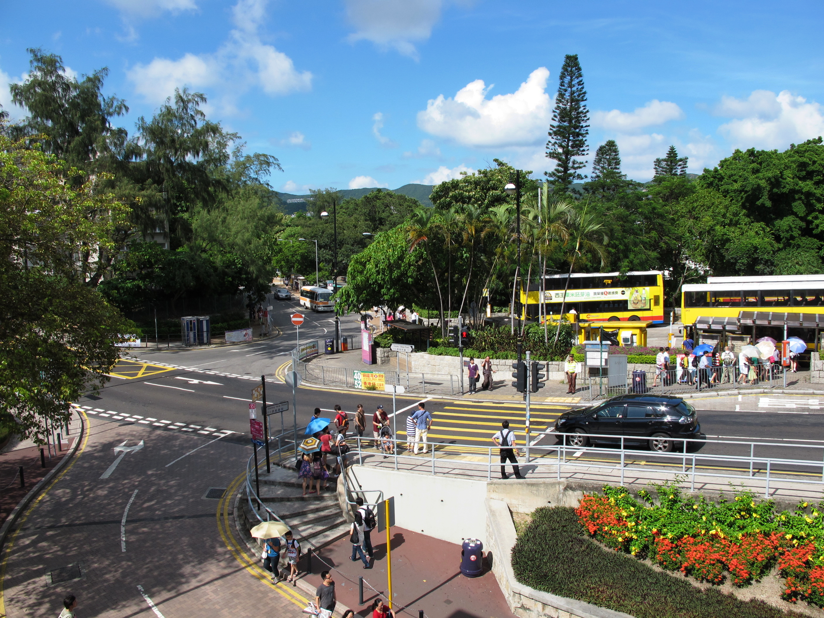 Stanley Village Road 赤柱村道近巴士總站